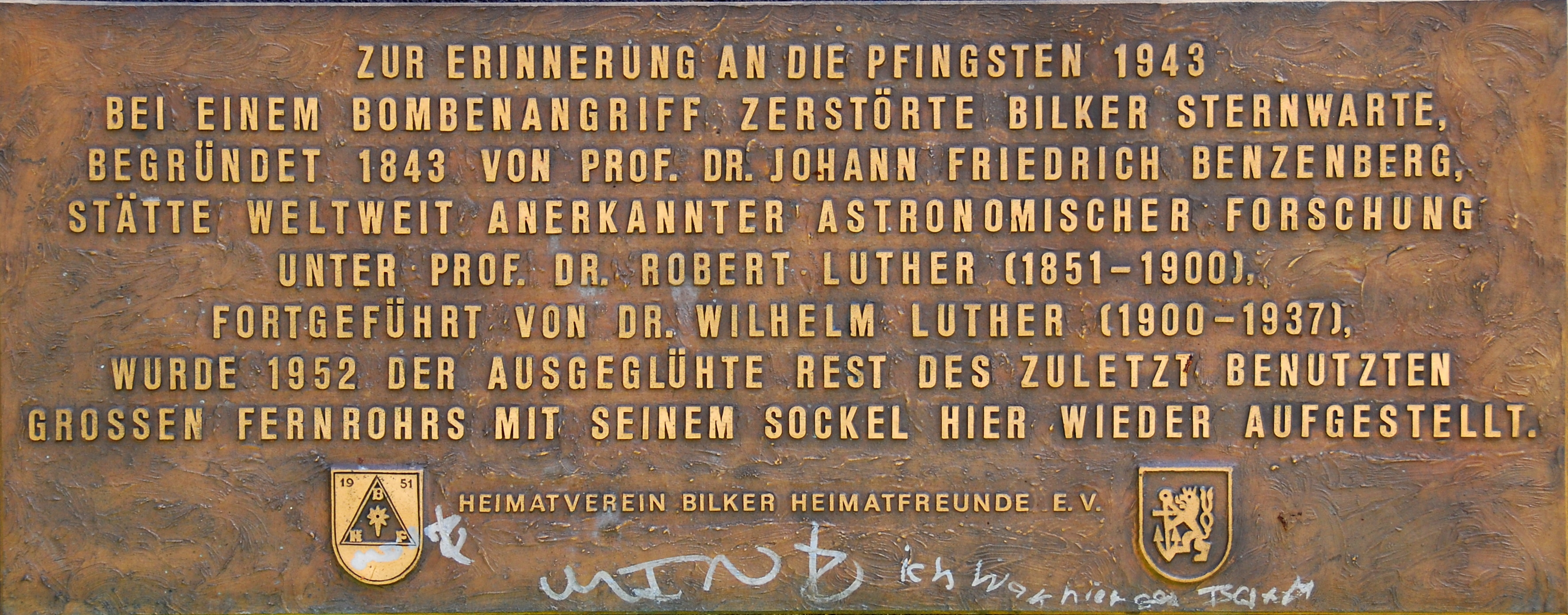 information plate on "Bilker Sternwarte"